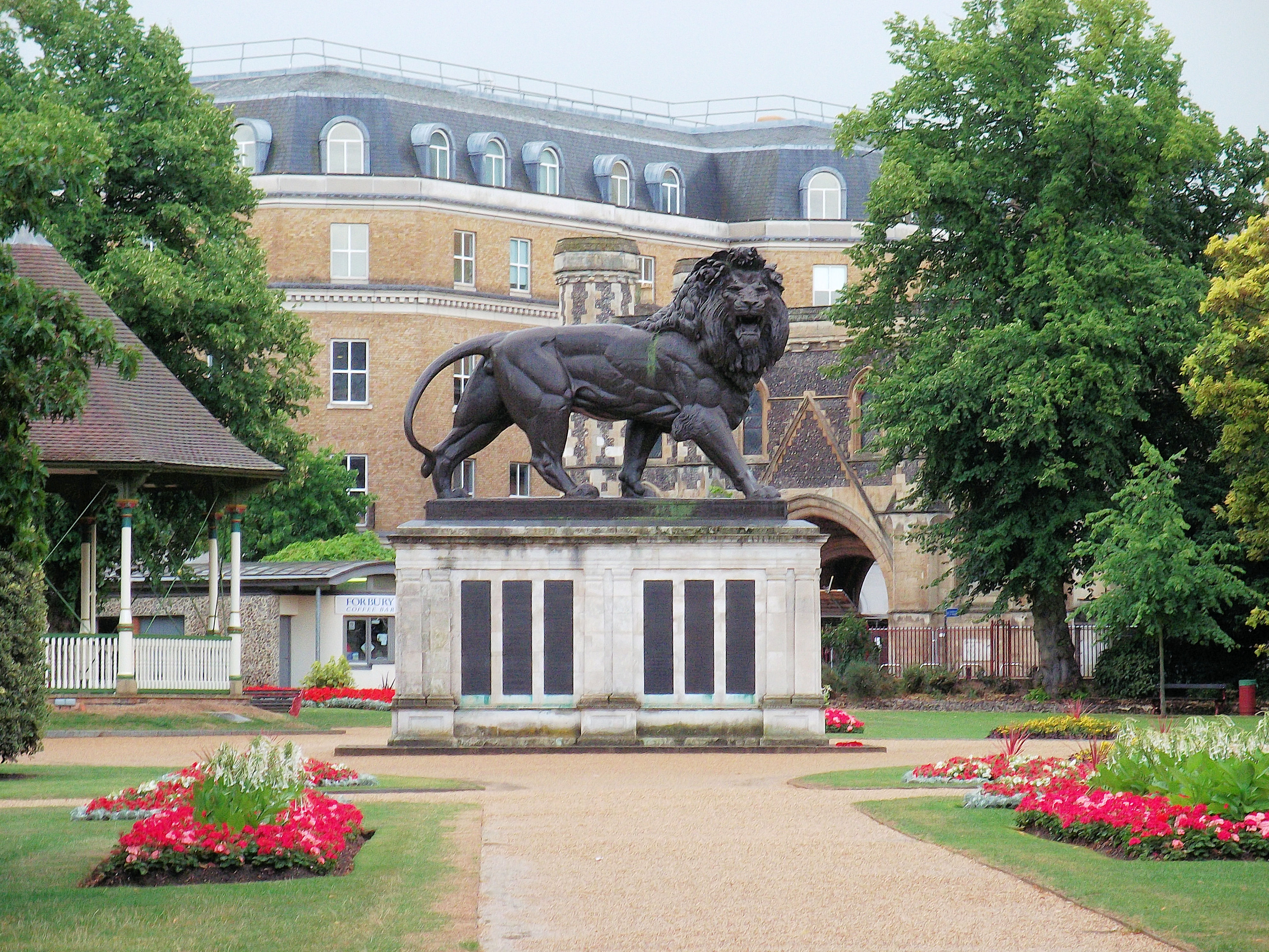 The Maiwand Lion is a sculpture and war memorial in Forbury Gardens, a public park in the town of Reading, in the English county of Berkshire. The statue was named after the Battle of Maiwand and was erected in 1886 to commemorate the deaths of 329 men from the 66th Berkshire Regiment during the campaign in Afghanistan between 1878 and 1880. It is sometimes known locally as the Forbury Lion.